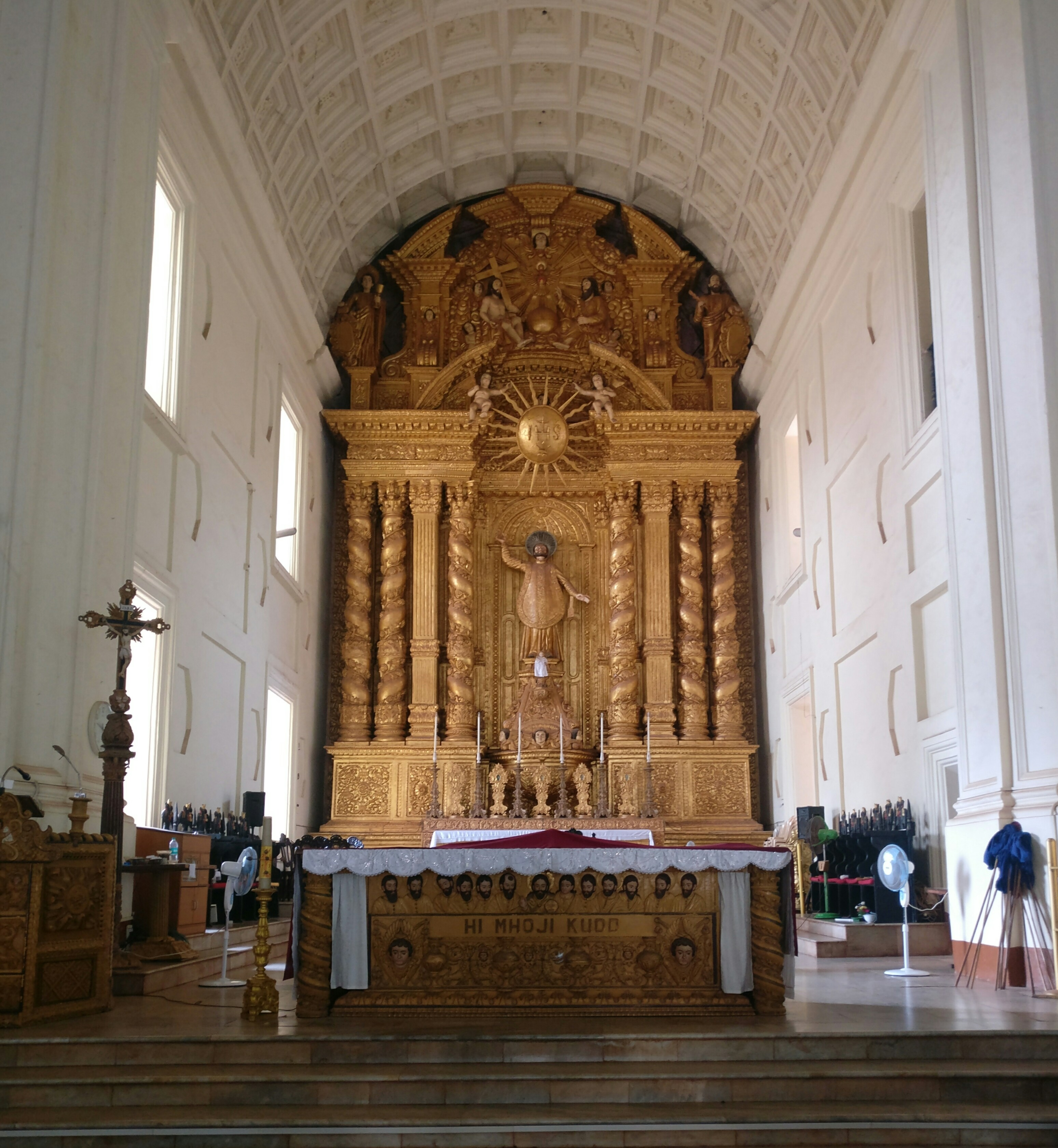 The Baroque style main altar is gilded and bears the statue of Ignatius of Loyola standing between Solomonic pillars above which is the name of Jesus in the IHS monogram and the Holy Trinity